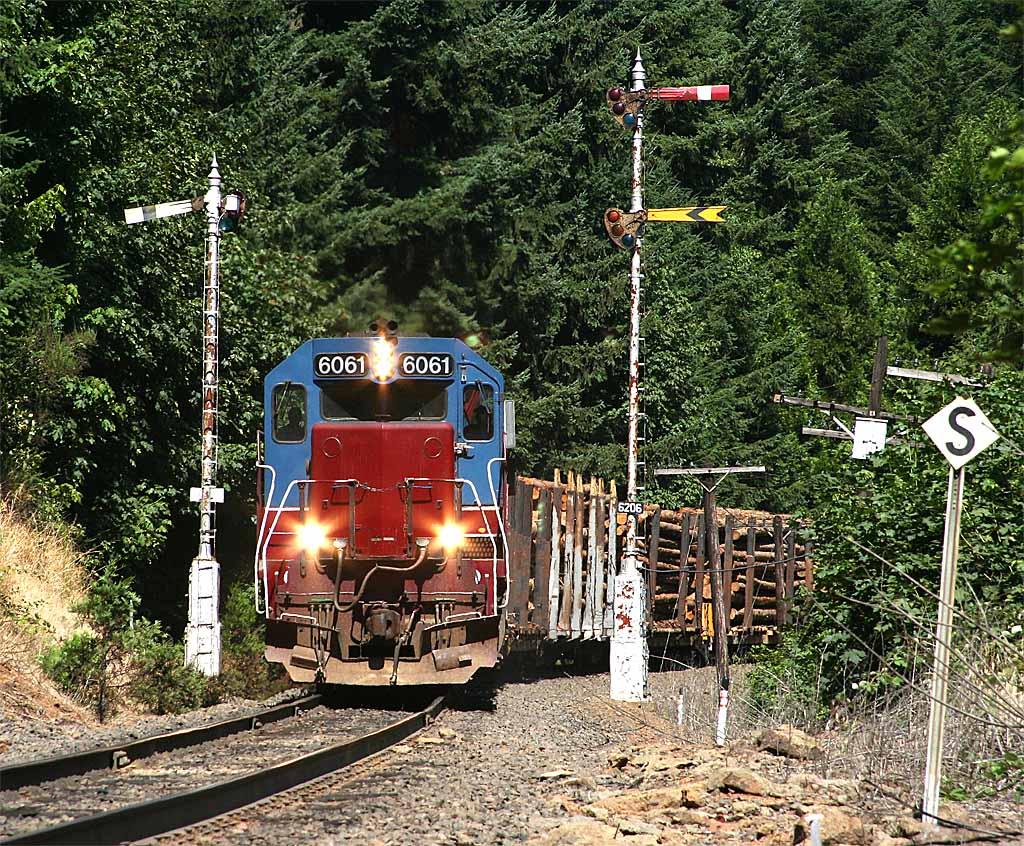 Log train splitting the semaphores at Divide, Oregon. Divide got its name because it is the dividing point between the Willamette and Umpqua River drainage.